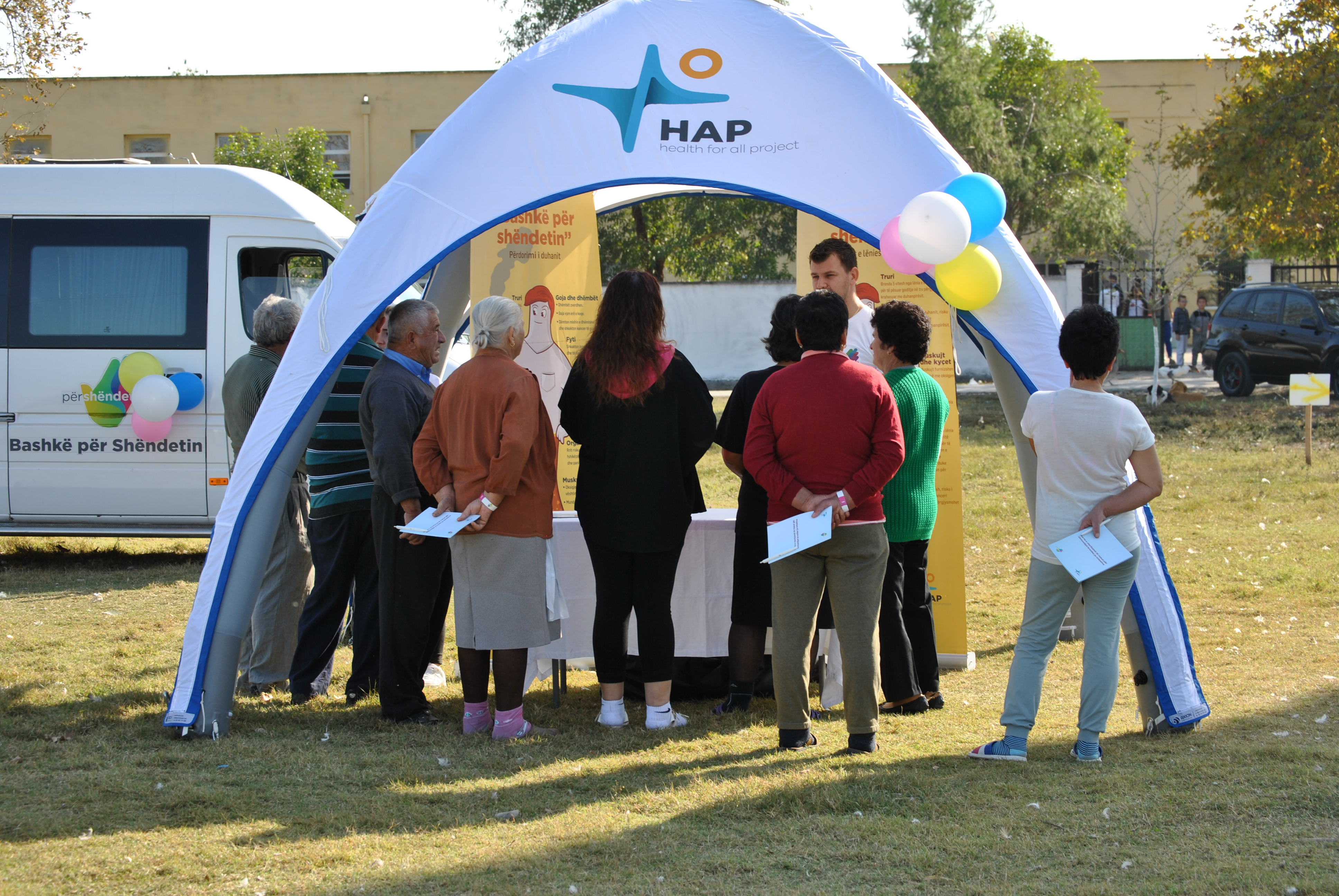 Picture of a campaign event